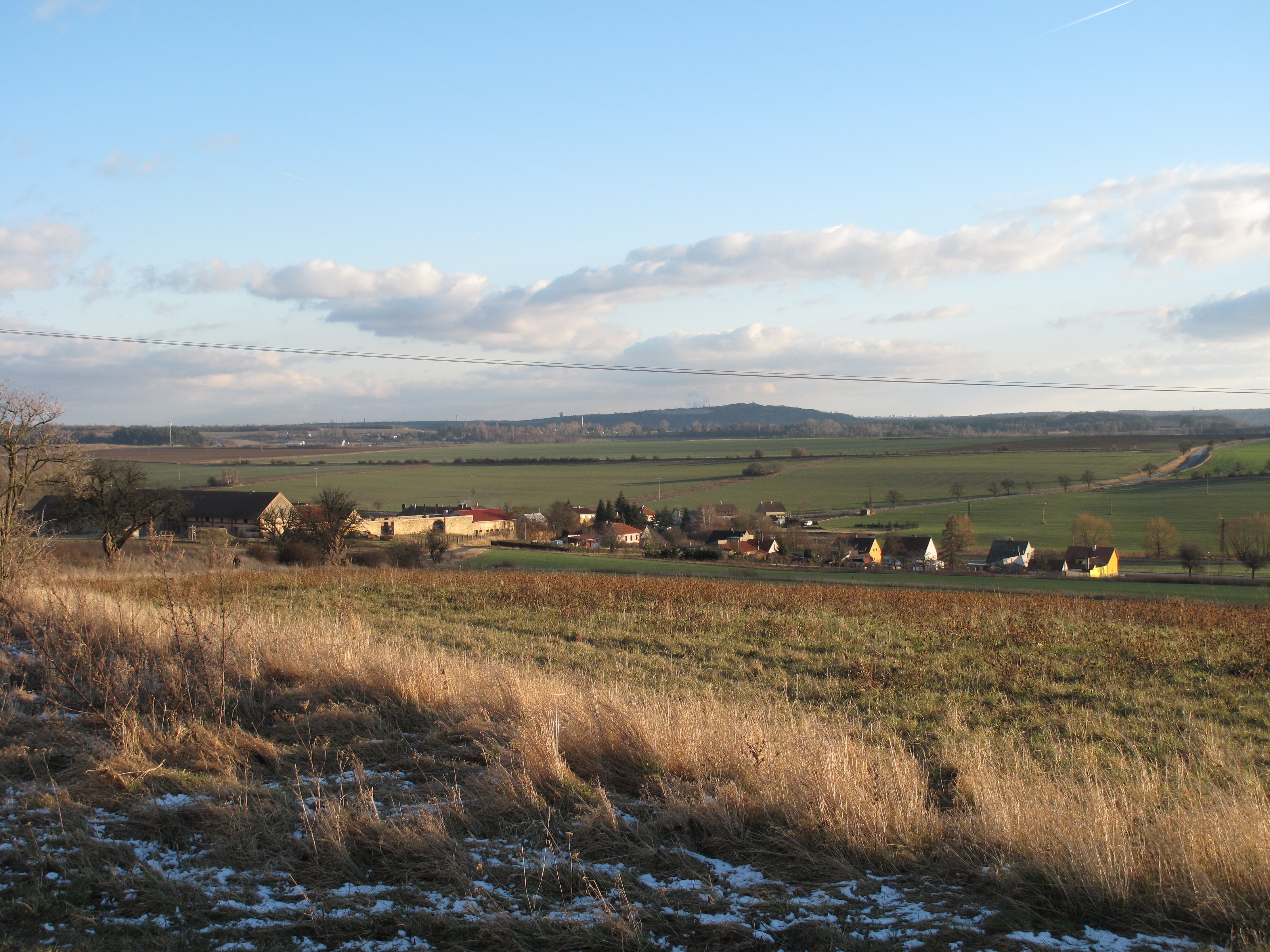 Studeněves village as seen from the north, Kladno District, Czech Republic.